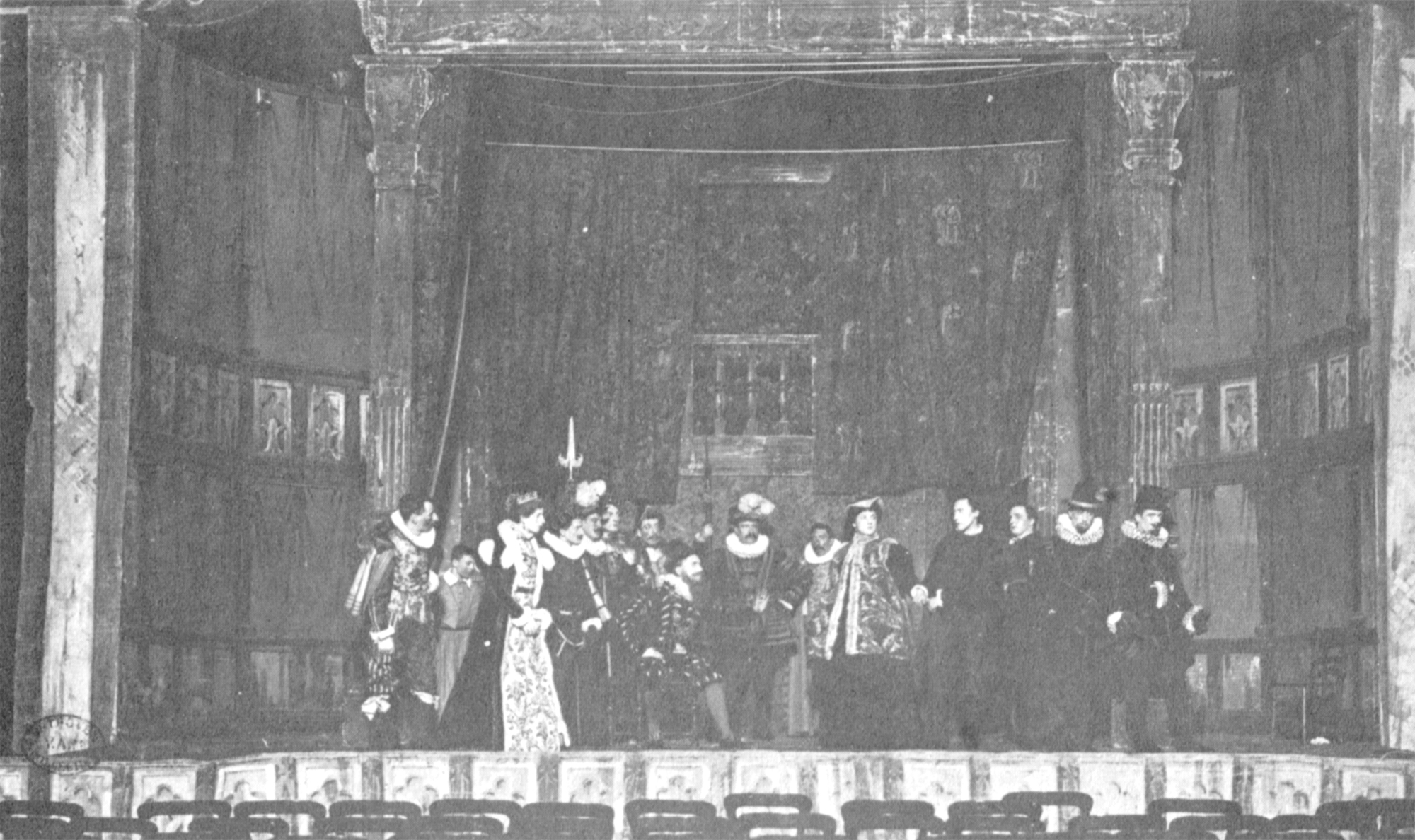 Photograph of the court scene of William Poel's production of Hamlet at St George's Hall in 1881